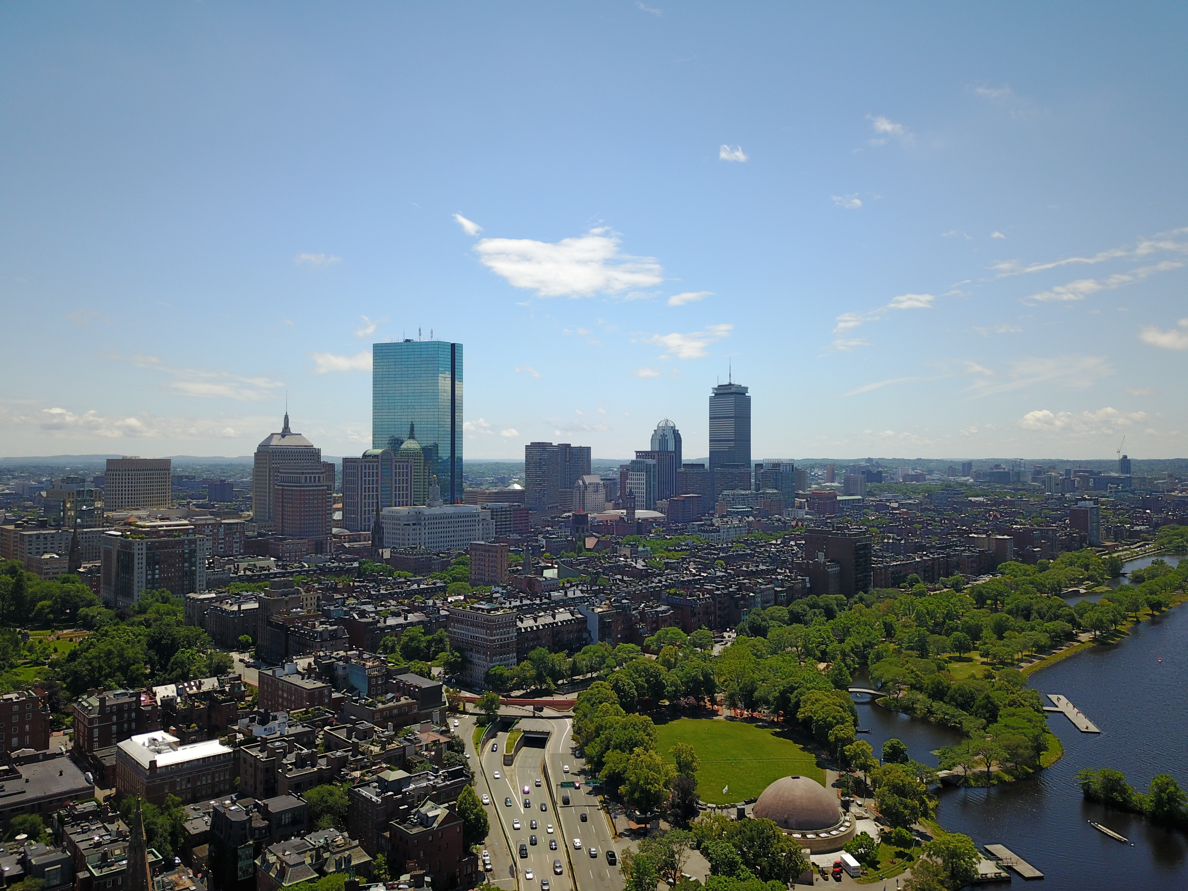 Aerial view of Boston City through Drone.